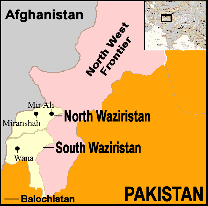 Map showing location of North and South Waziristan in northern Pakistan and bordering on Afghanistan